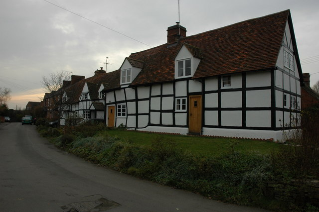 Cottages in Lower Moor Half-timbered cottages in Lower Moor.